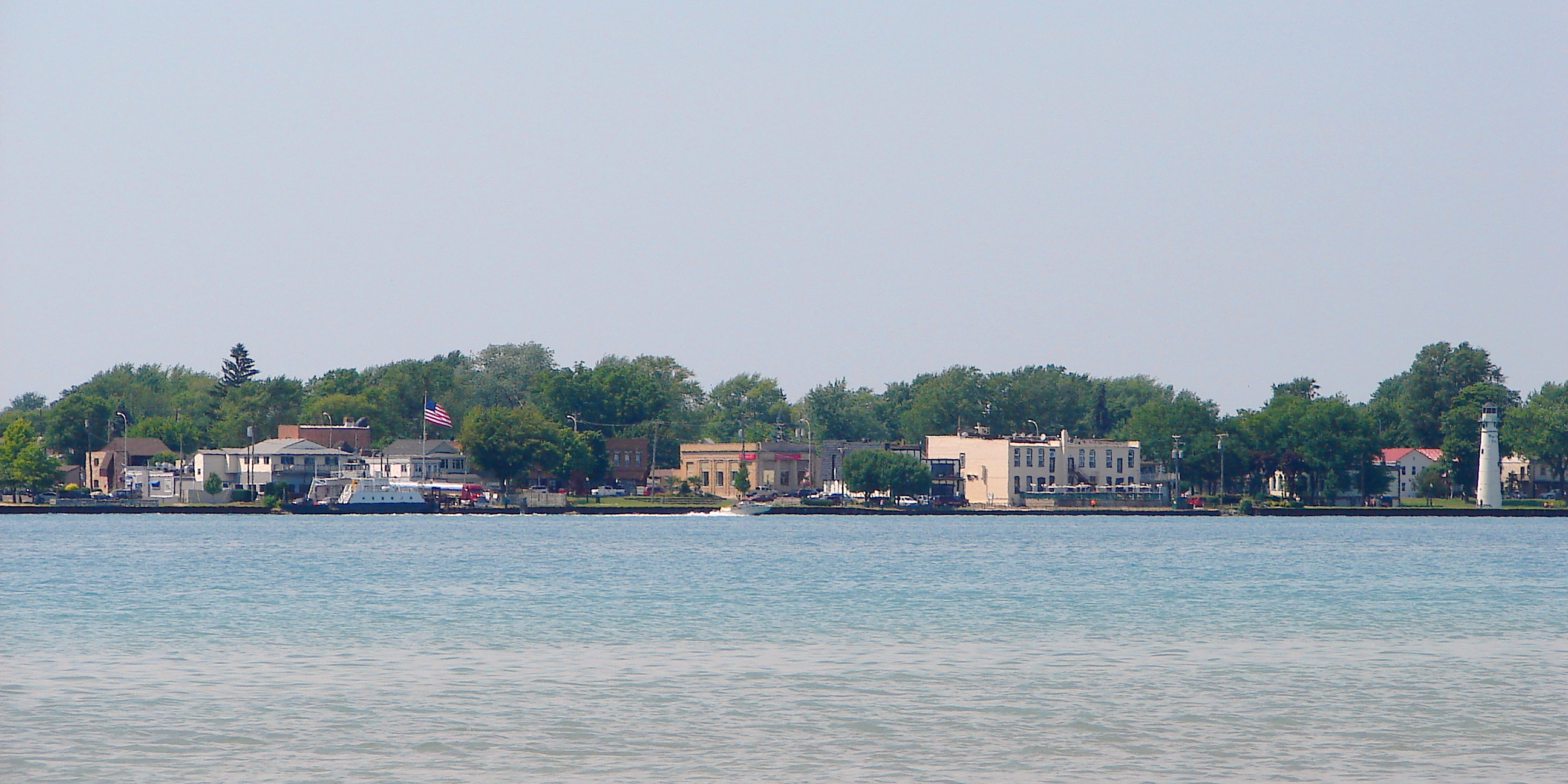 Skyline of Marine City as seen across the St. Clair River, St. Clair County, Michigan, USA